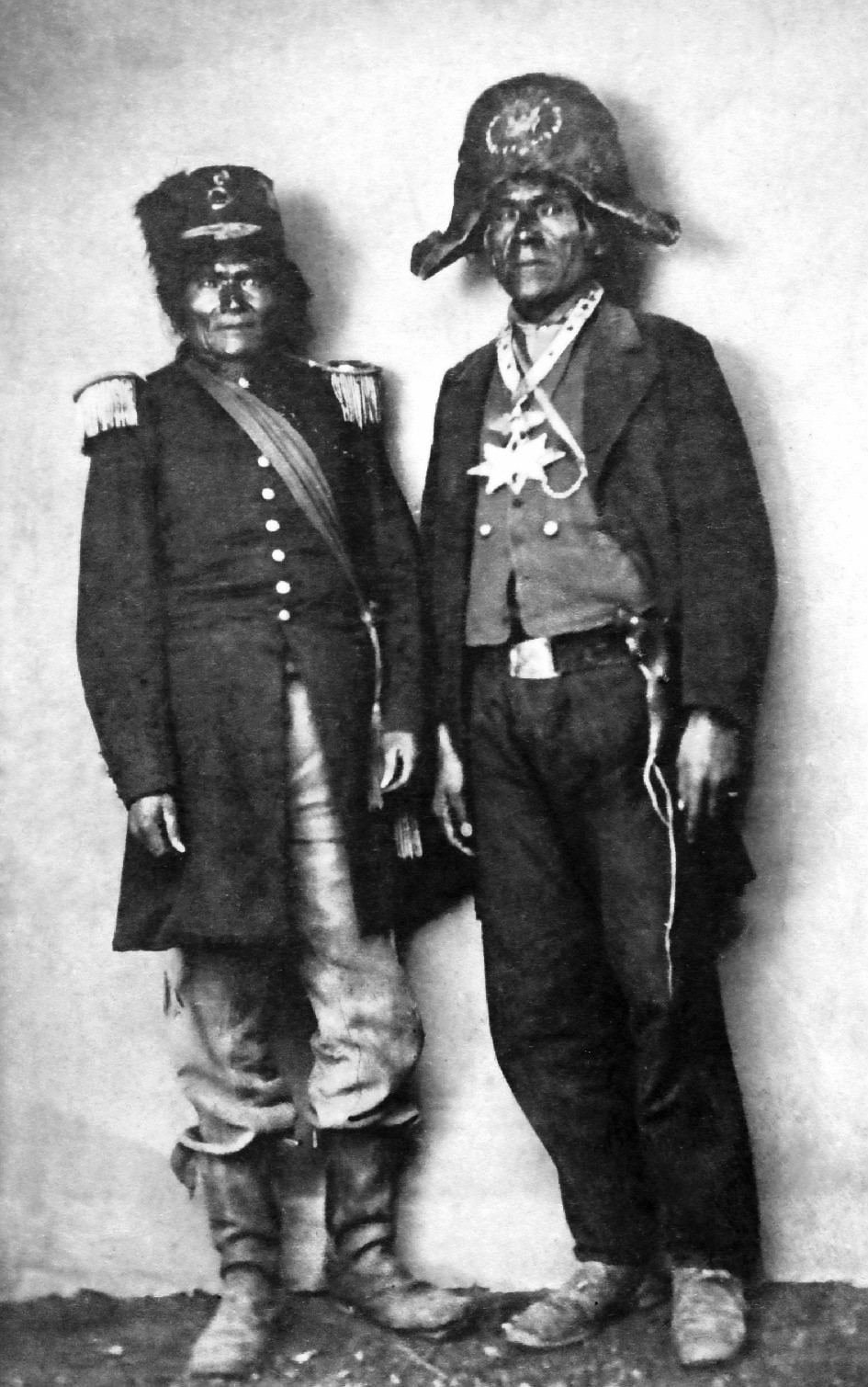 Photo of Ah-oochy Kah-ma (left) and Ireteba (right). LOC has 2 copies available-the lower listing is on modern color film.